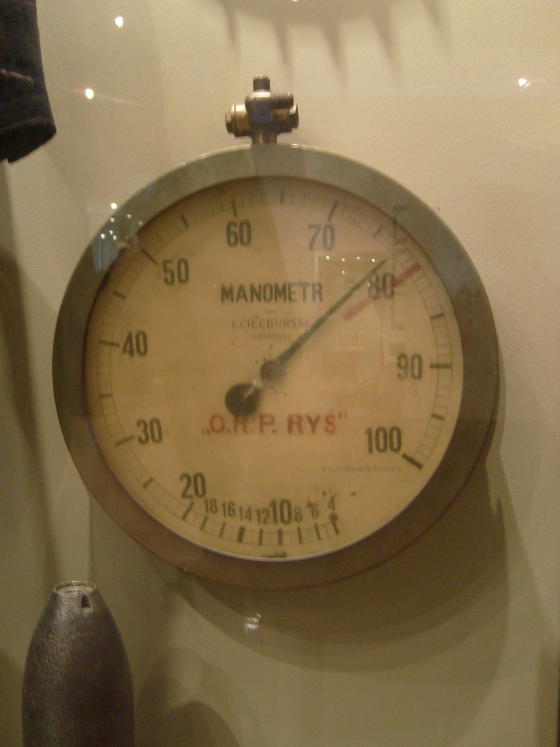 Manometer from the Polish submarine ORP Ryś, collection of the Polish Army Museum in Warsaw, Poland.